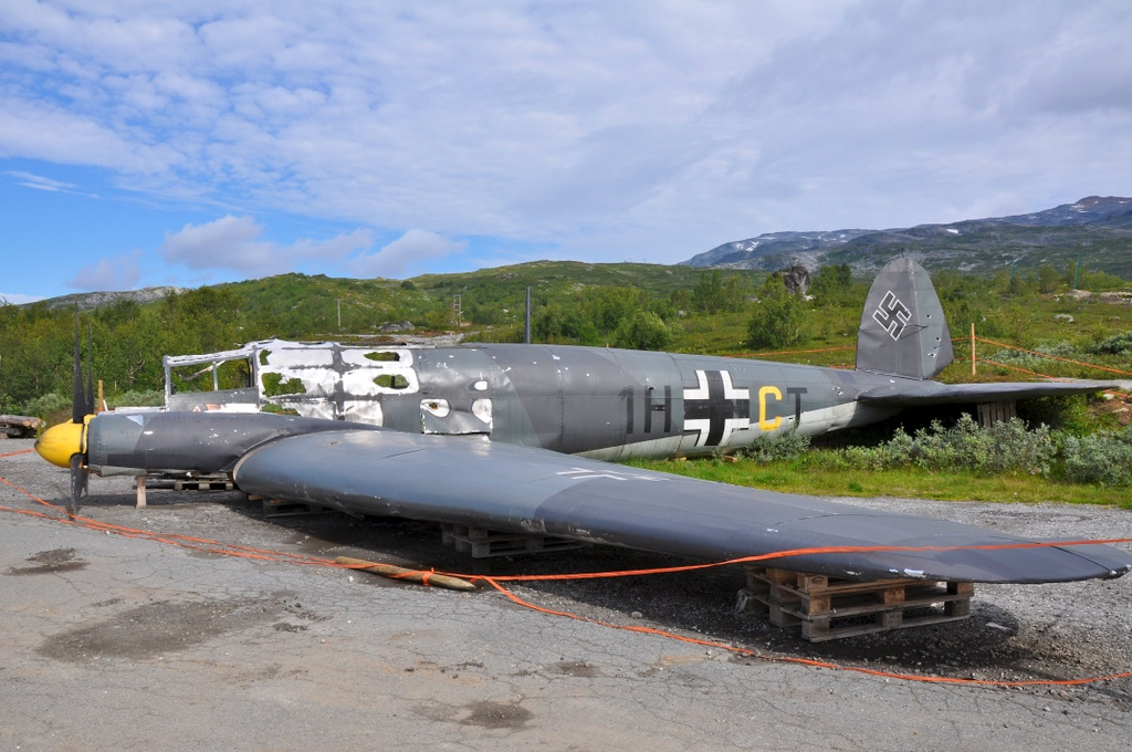 This 1:1 copy of a Heinkel 111 plane located in Grotli (Norway) is used in the movie "Into The White" (2012)